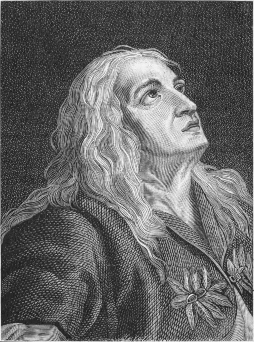 French actor Jean-Baptiste Britard, a.k.a. Brizard (1721-1791)